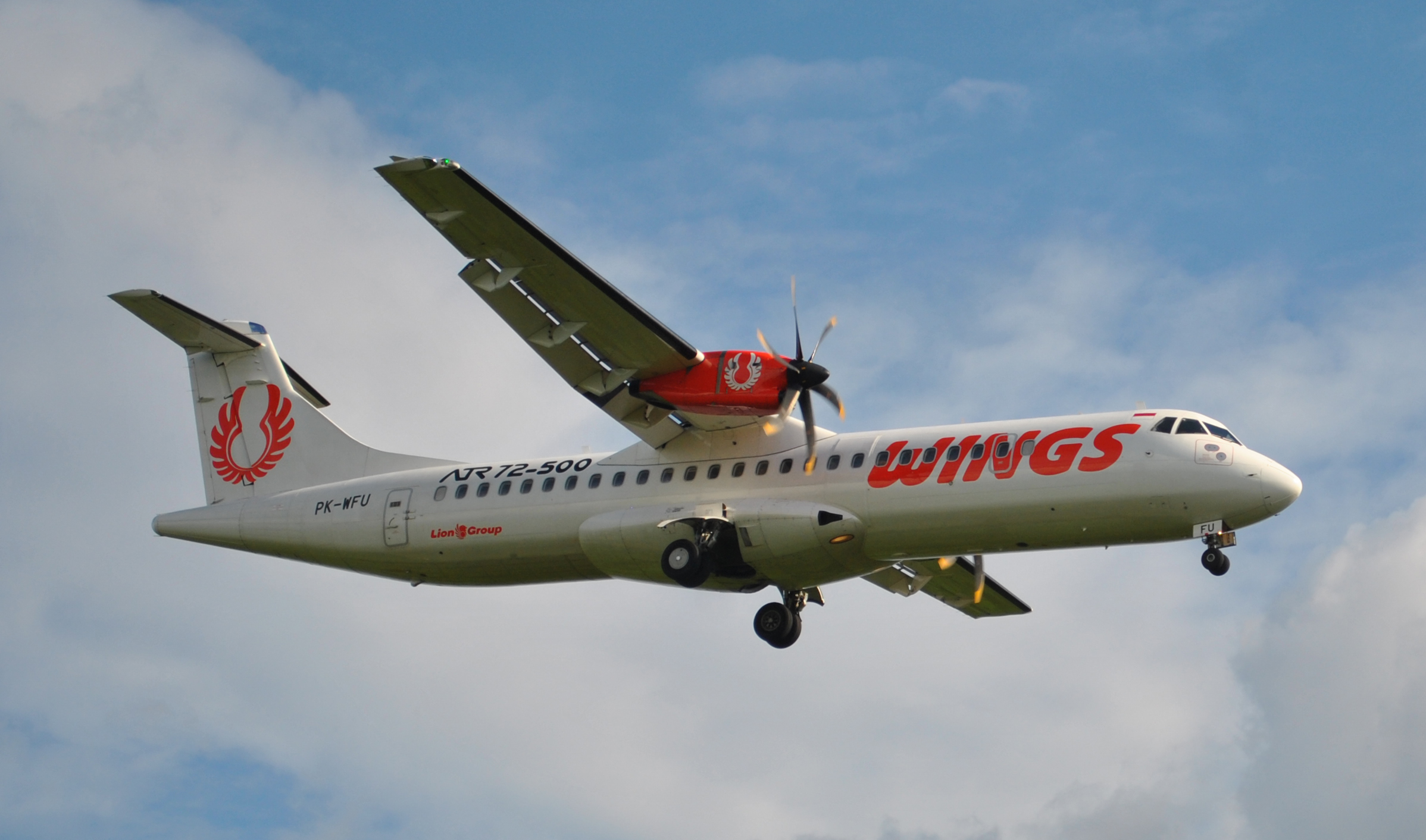 Wings Air ATR 72-500 (reg.code PK-WFU) approaching at I Gusti Ngurah Rai International Airport, Tuban, Badung, Bali.